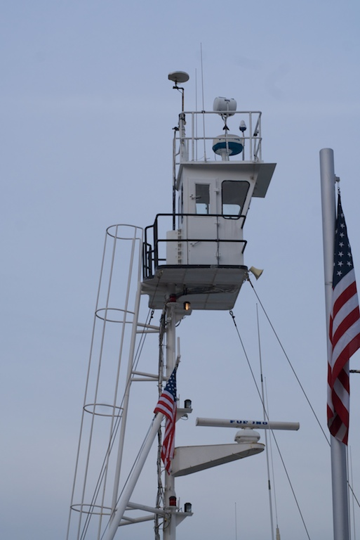 Didn't realise we still used them